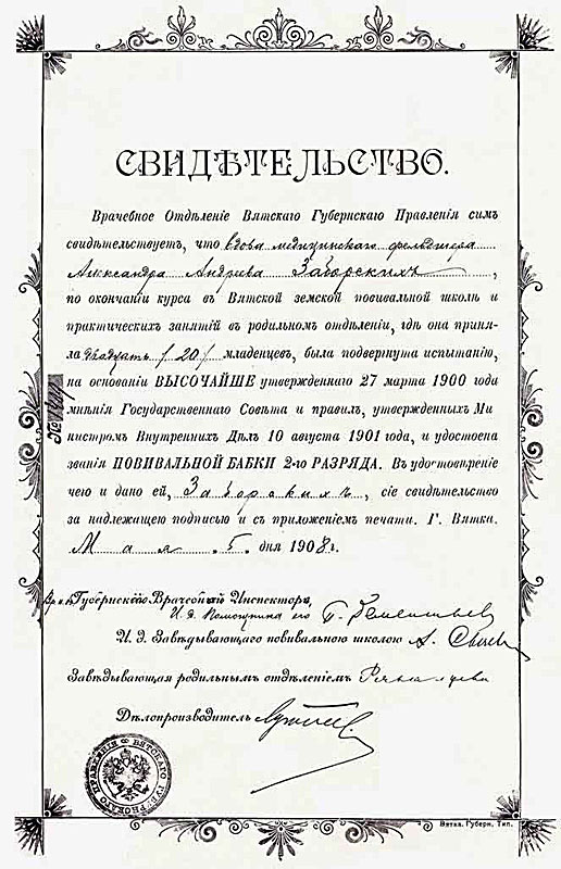 Certificate of qualification for midwives.